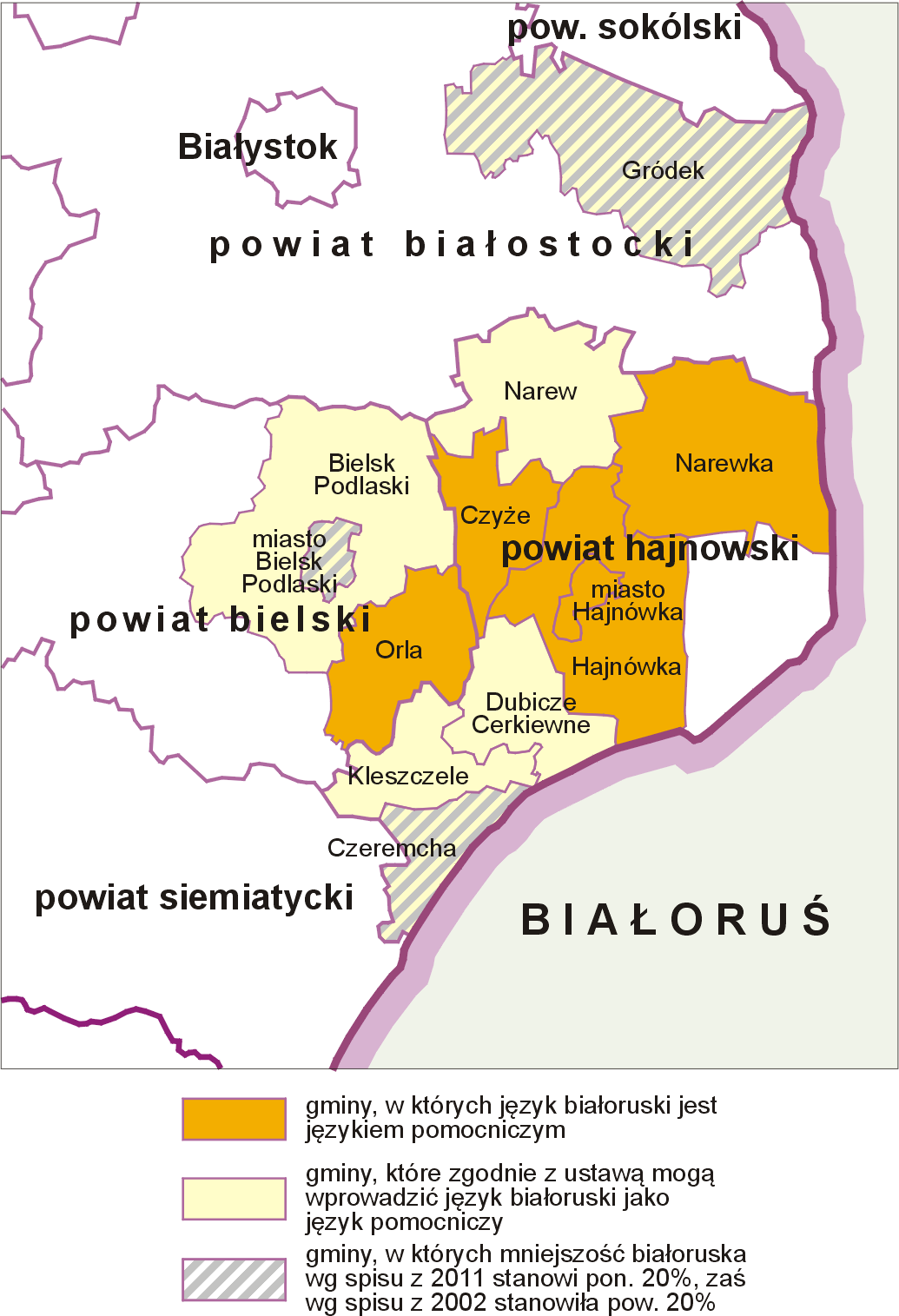 Belarusian language in Poland (as of 28 May 2010). Orange: communes where Belarusian is an official auxiliary language Yellow: others communes which are permitted to give Belarusian such a status